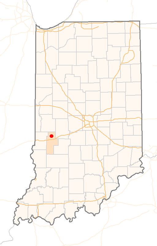 Red Dot map of Indiana, showing the location of Knightsville